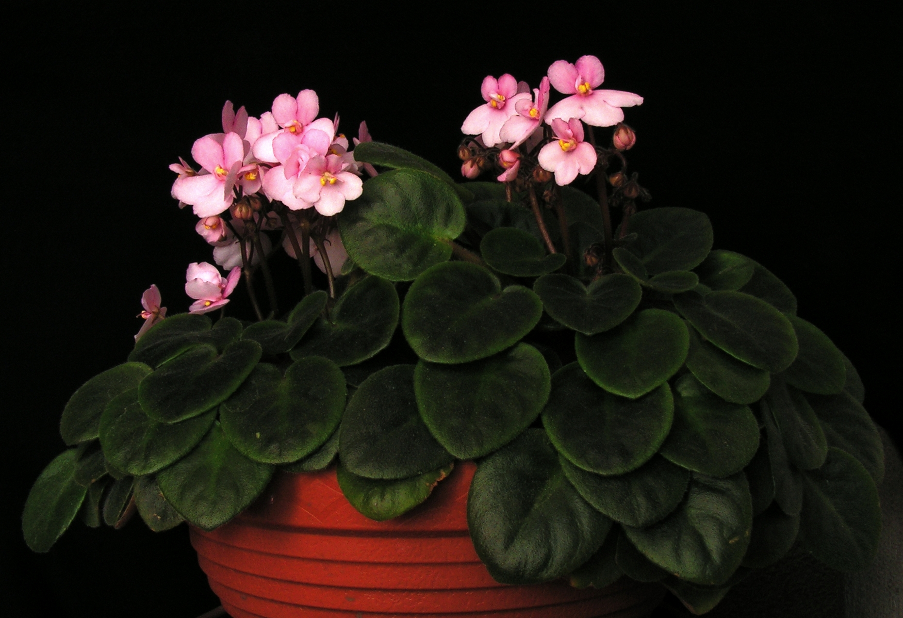 The flowering hybrid saintpaulia